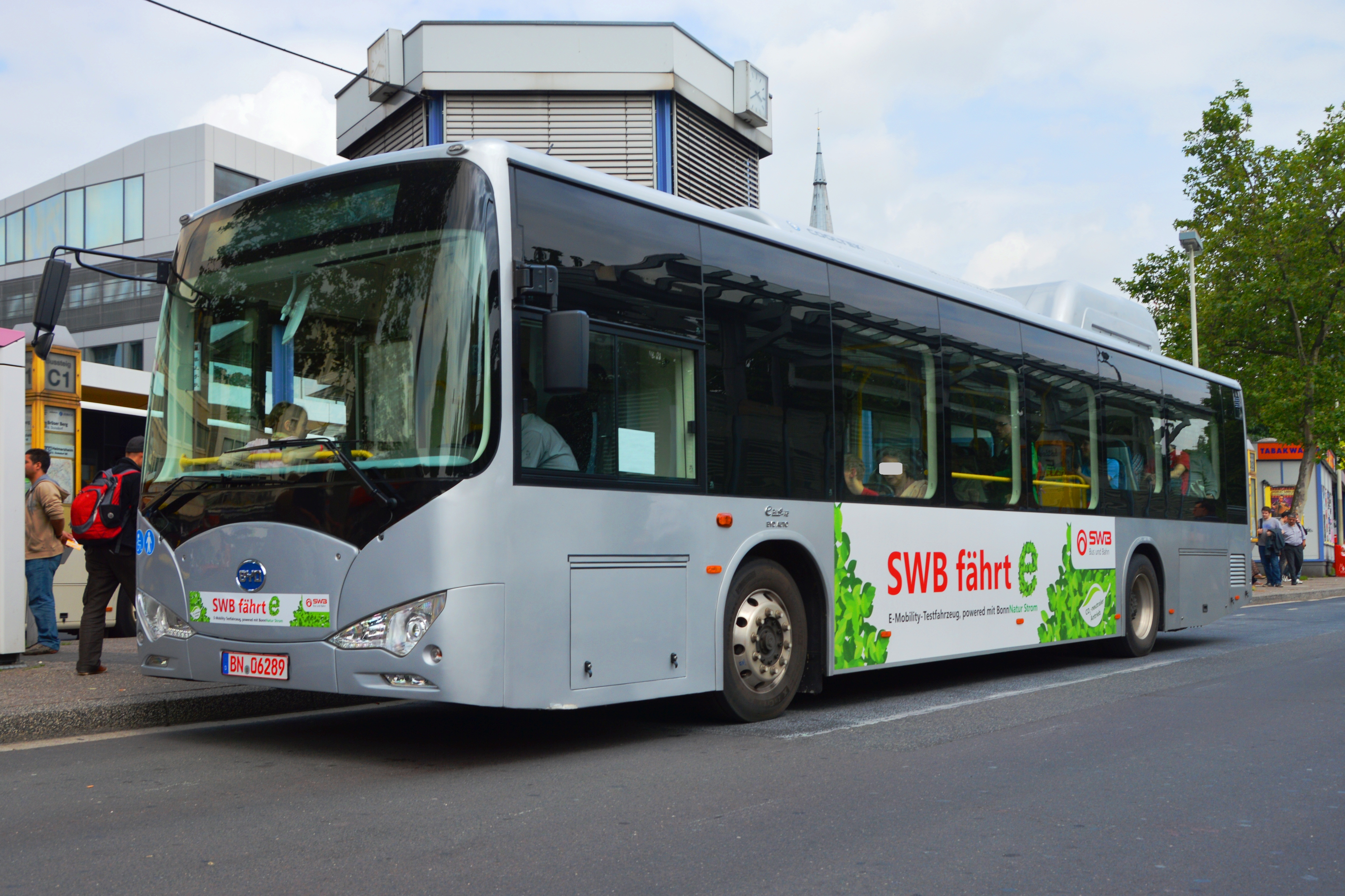 BYD ebus (electric bus). Test vehicle. Photo taken 2013 in Bonn, Germany. 中文（中国大陆）: 比亚迪K9. 在2013年在波恩举行的夏季测试车